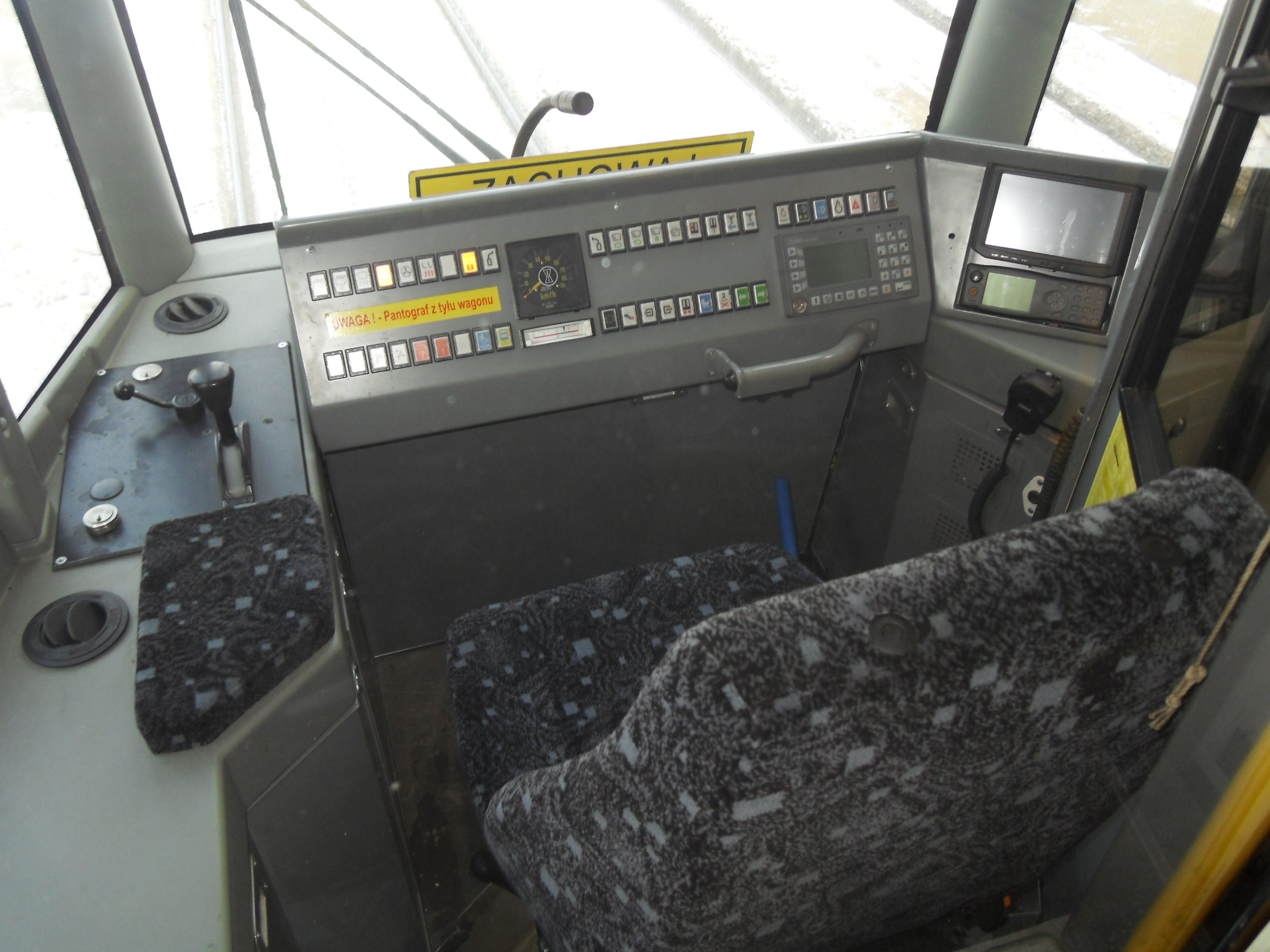 A Moderus Beta MF 01 tram in Gdańsk (Poland) - driver's cab.